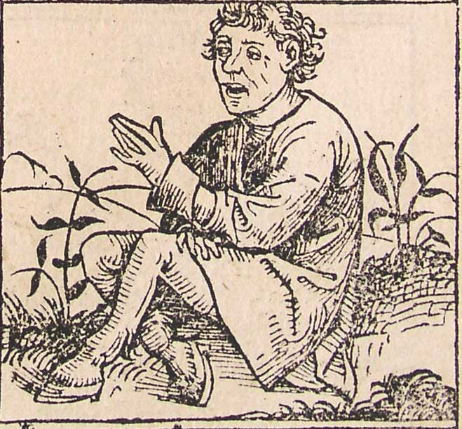 Hoof Man